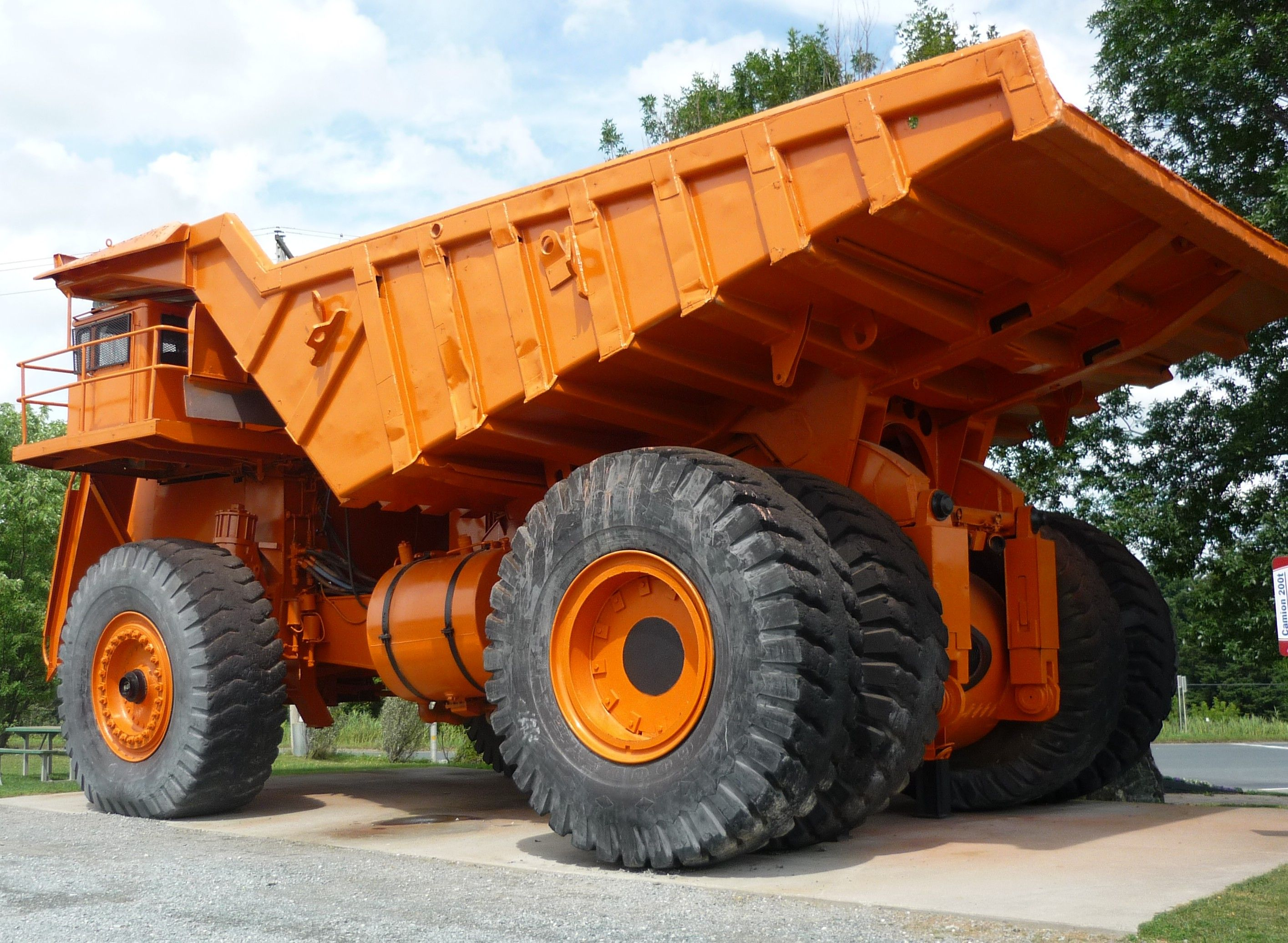 Lectra Haul M200 (The first 200 tonne capacity truck with two axles). Lectra Haul was the trademark name for trucks built by Unit Rig, becoming part of Terex and sold to Bucyrus International (web source). Original caption (translation from French): Lectra Haul truck exposed in Asbestos, Quebec since 1987. Built in the United States, JM Asbestos (Jeffrey Mine) received it in parts. Contains 200 tons of earth. Weight: 190 tons. The 200 tons truck is the largest that the company owned. It has four in his possession. Four electric motors powered from a generator that runs on Diesel. Only one driver (no need a special permit). Buy in early 1970 at a cost of $ 1.3 million. Lifetime of the front tire: 6 months; lifetime of the rear tire: 2 years. Price of a tire at the time: $ 16 000.